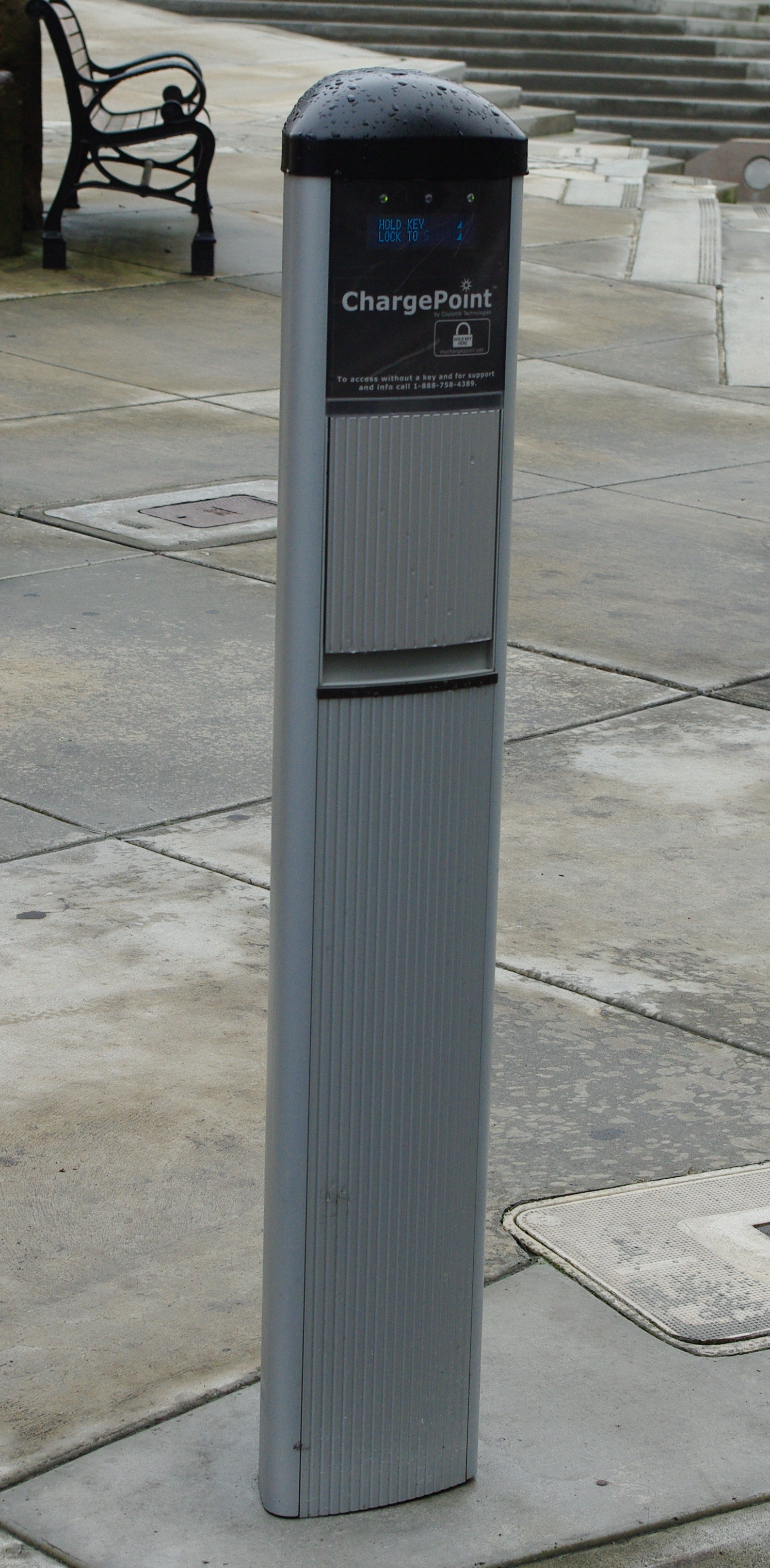 Close up of a ChargePoint brand e-vehicle charging station at the Hillsboro Civic Center in Hillsboro, Oregon.